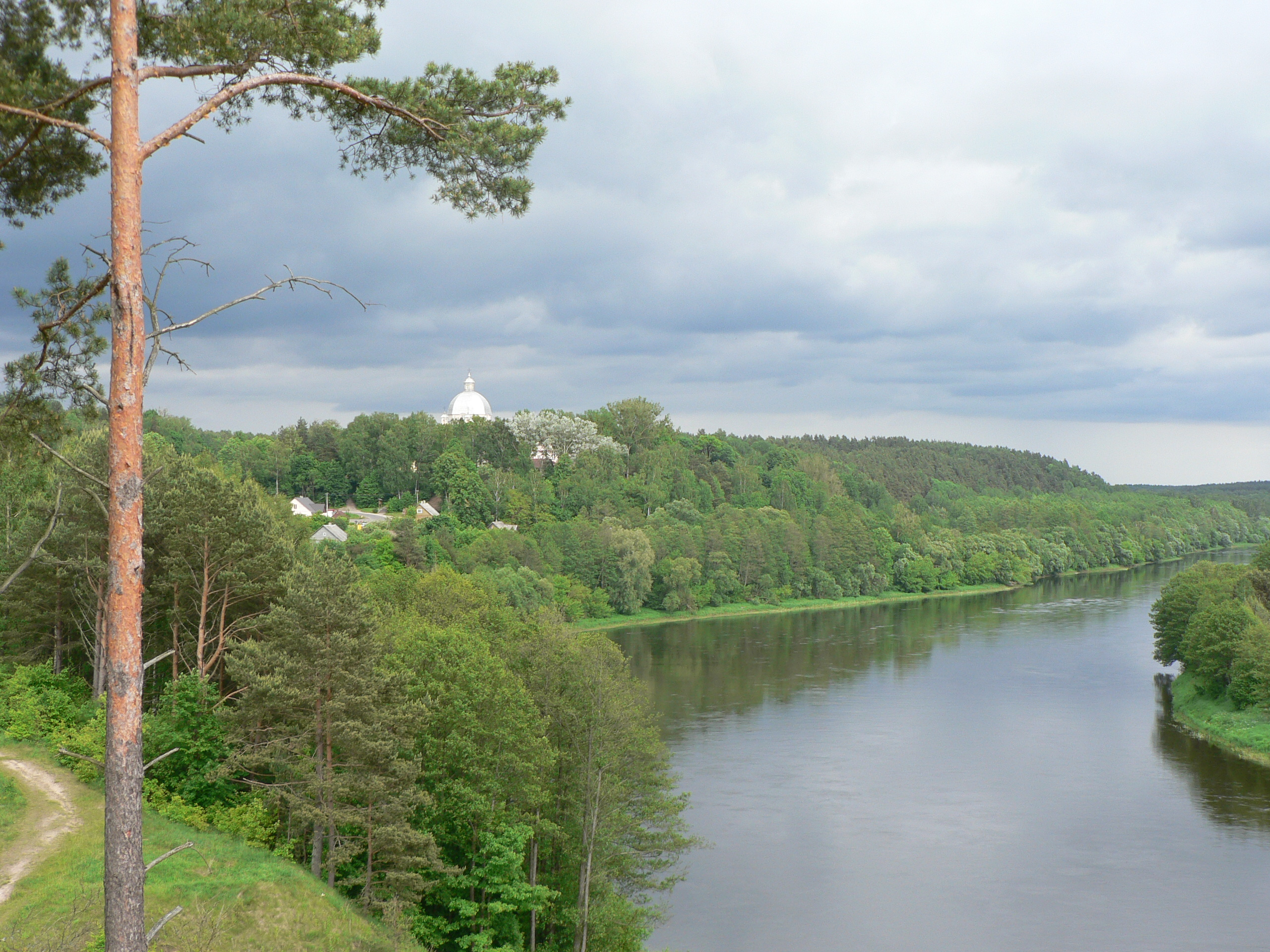 Neman river in Liskiava, Lithuania. View from a hillfort.